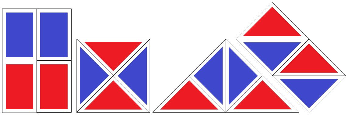 Schemes of main rectangular and triangular stamp 4-blocks